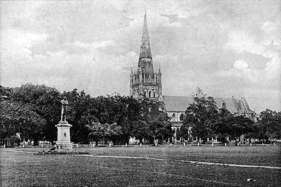 St. Andrew's Cathedral from a southwestern viewpoint; a statue of Sir Stamford Raffles, founder of colonial Singapore, stands nearby in the Padang.